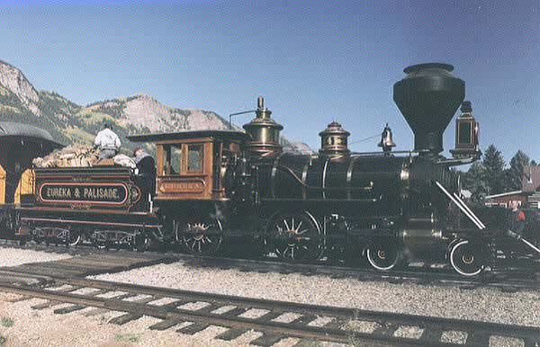 Eureka & Palisade No. 4 being refueled at Rockwood, Colorado during excursion October, 1997. Photo of "Eureka" for the Eureka Locomotive article.